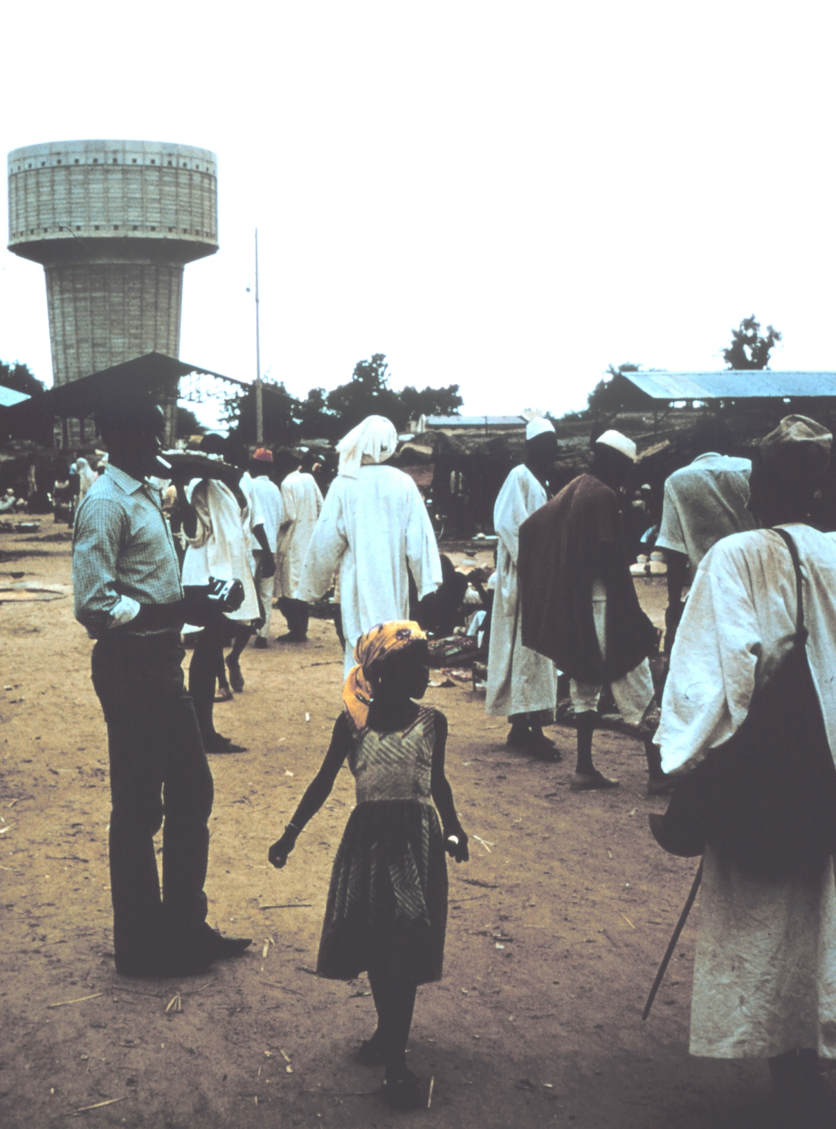 People in Fort Lamy, Chad, Central Africa.